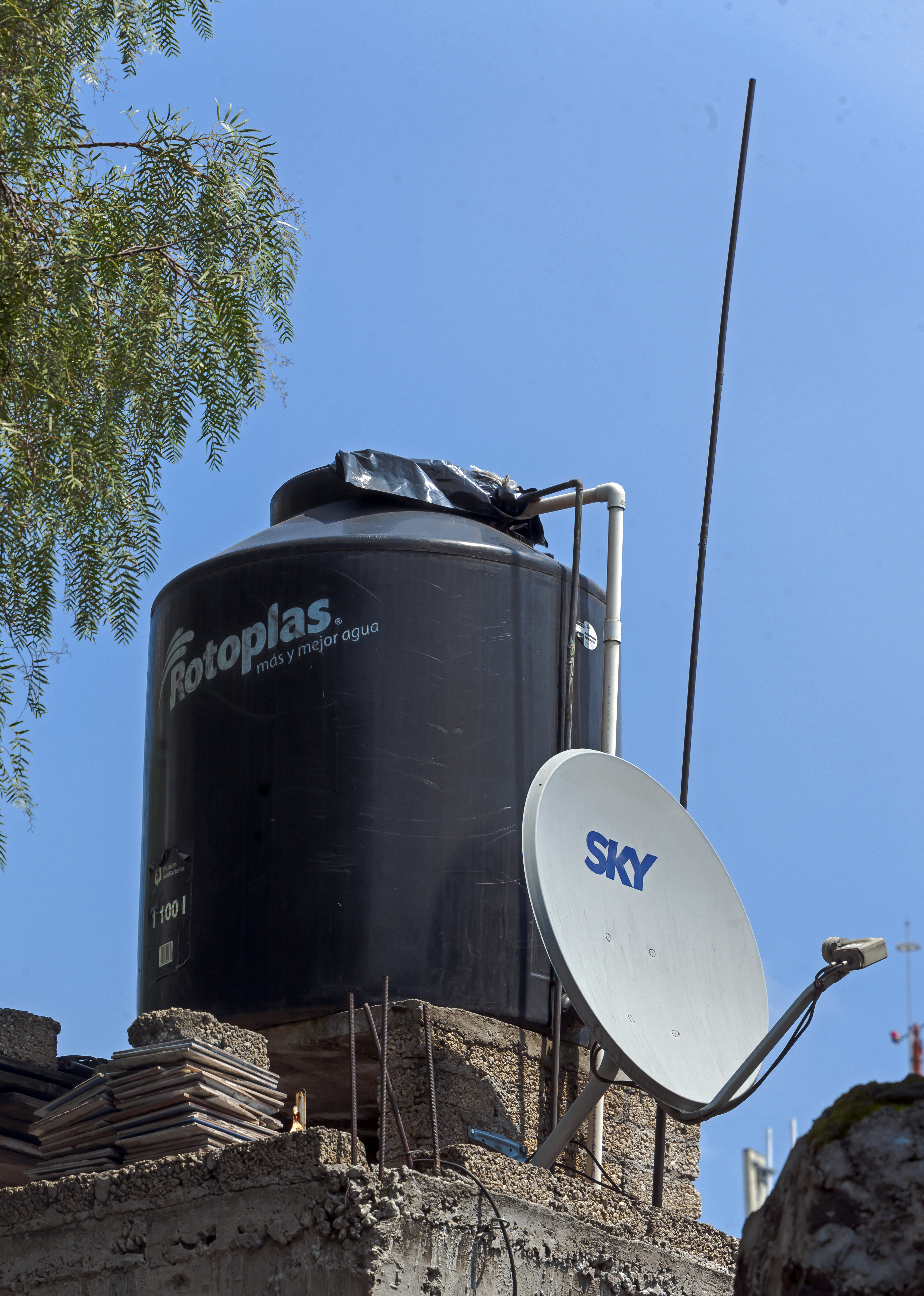 A rooftop water tinaco, to keep a consistent household water pressure when the municipal system cannot, and a satellite dish on a house's roof on Mexico City.